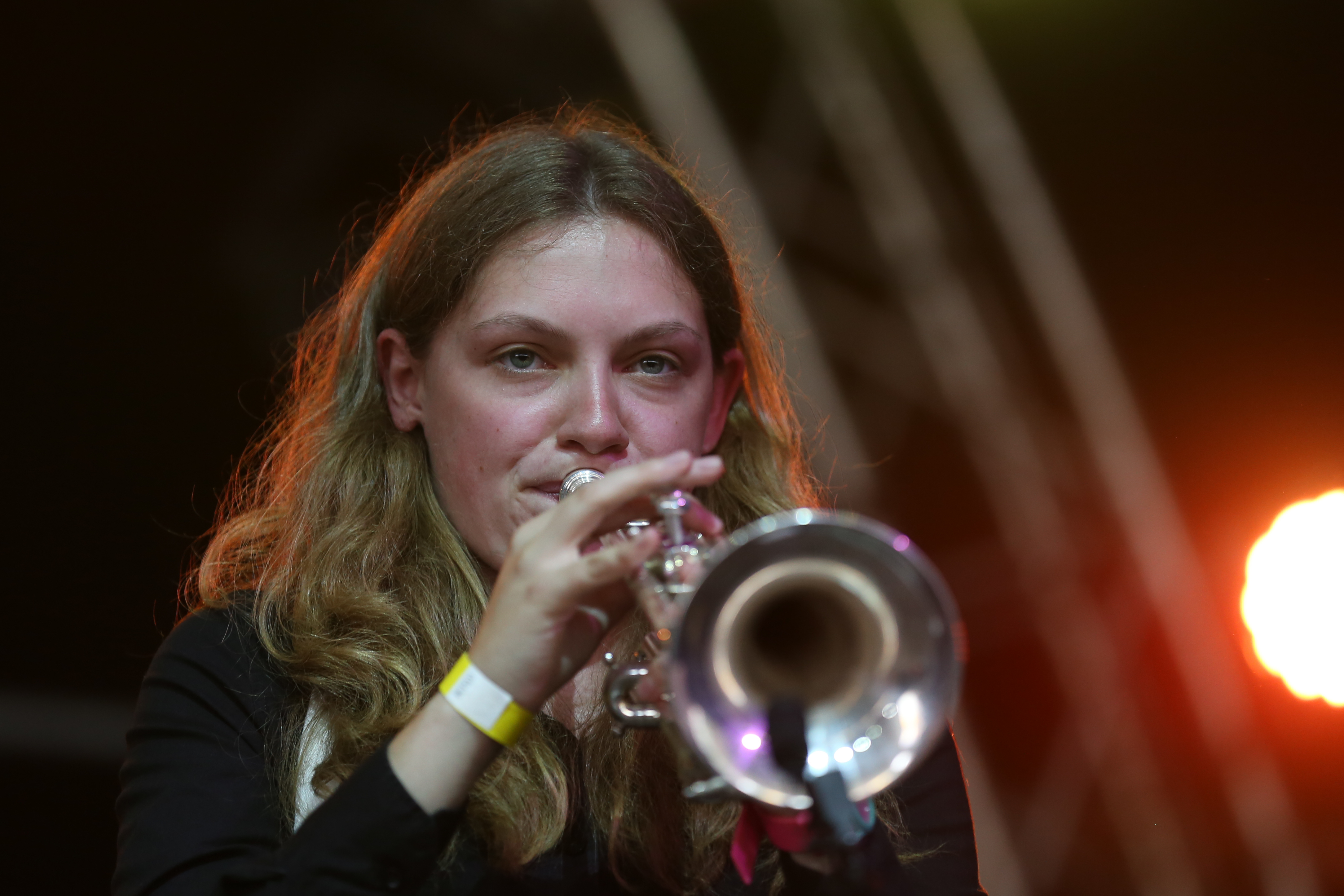 Przystanek Woodstock in 2016.